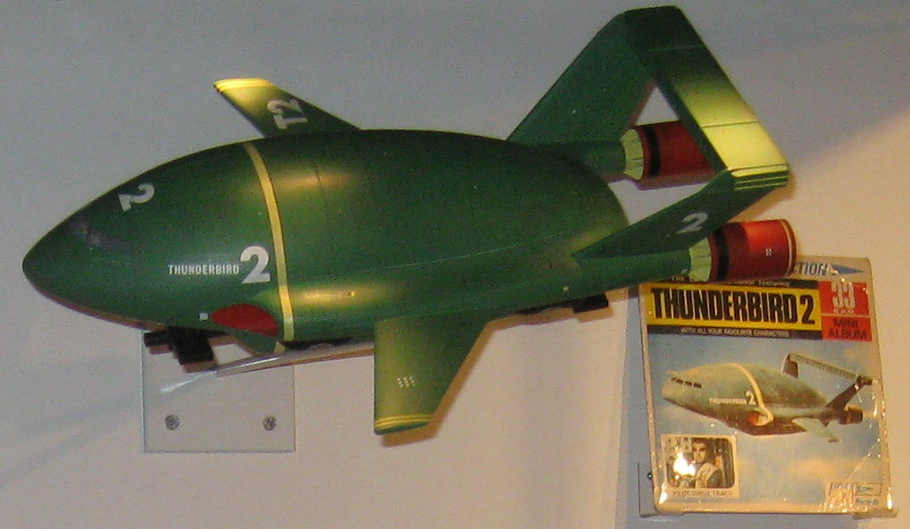 Model of Thunderbird 2 used in the children's television series Thunderbirds and the film Thunderbirds are Go!. On display at the National Media Museum, Bradford. Also shows a "Mini Album" (33 rpm vinyl record) with Thuderbird 2 on the cover.